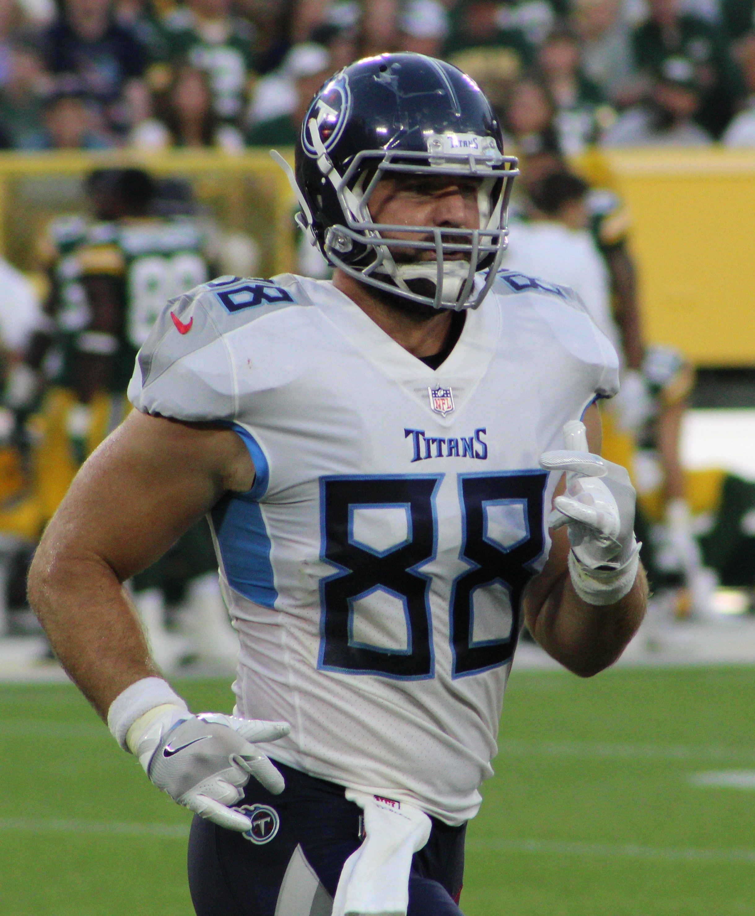 Luke Stocker, Tennessee Titans at Green Bay Packers (Preseason), August 9, 2018